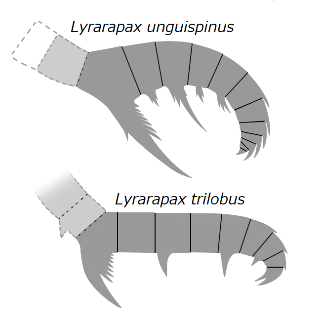 Frontal appendages of the radiodont genus Lyrarapax. Light grey indicating regions with incompleteness and/or uncertainties. Dash line indicating undescribed regions. Size not to scale.